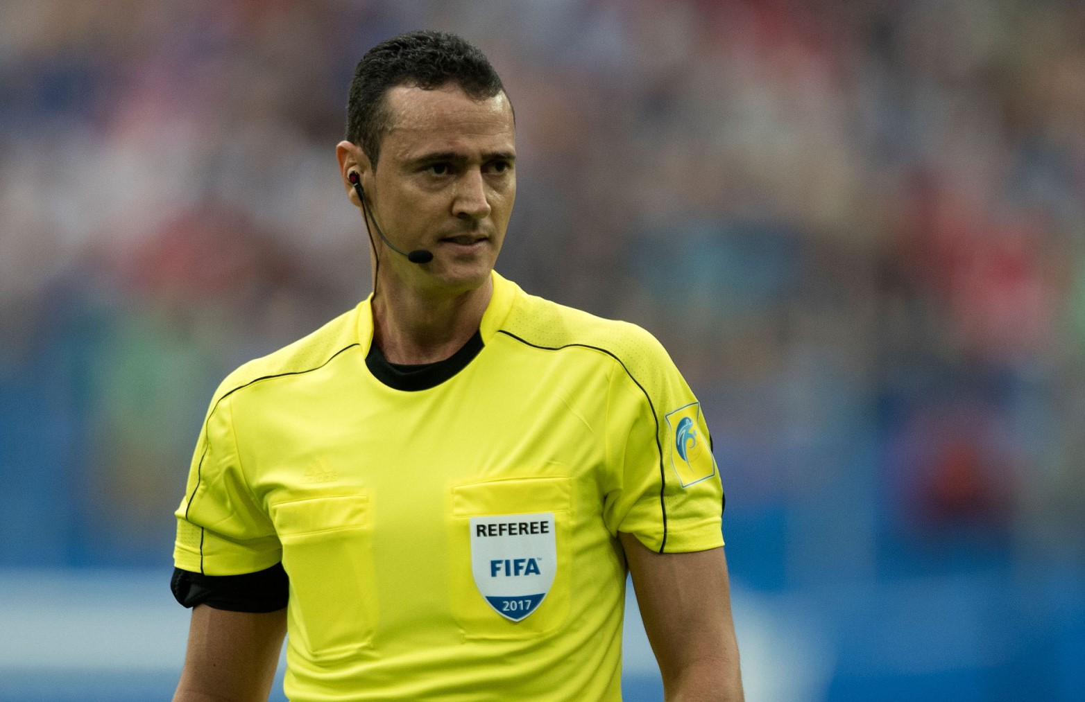 Wilmar Roldán